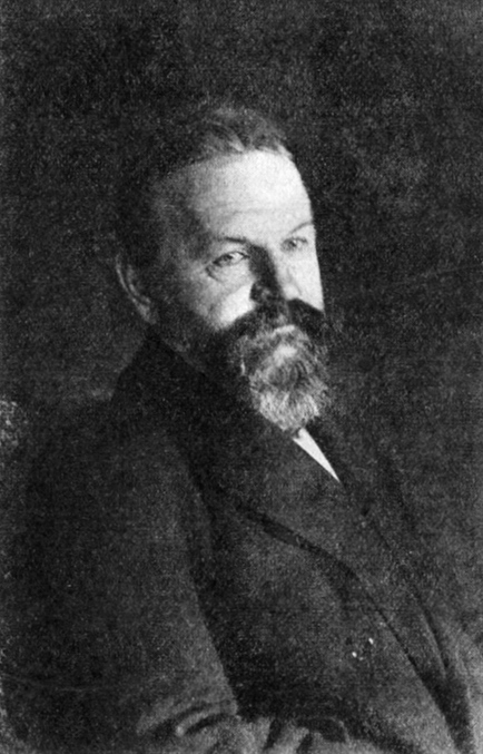 František Bílek (1872–1941) was a Czech Symbolist printmaker, sculptor and architect.